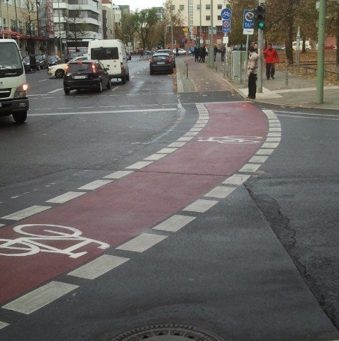 Bycicle crossing in Berlin